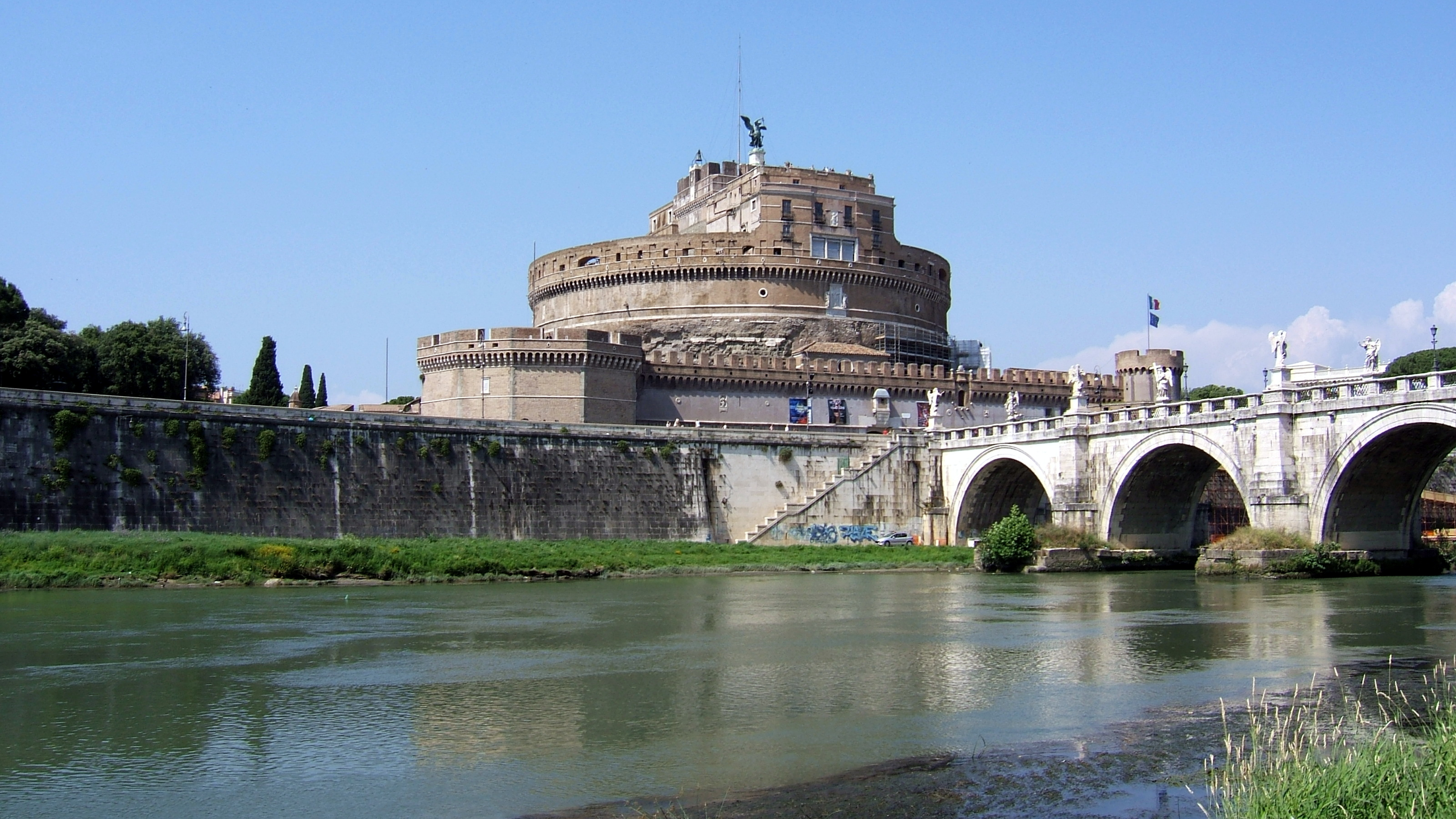 2007-06-09 in Rome